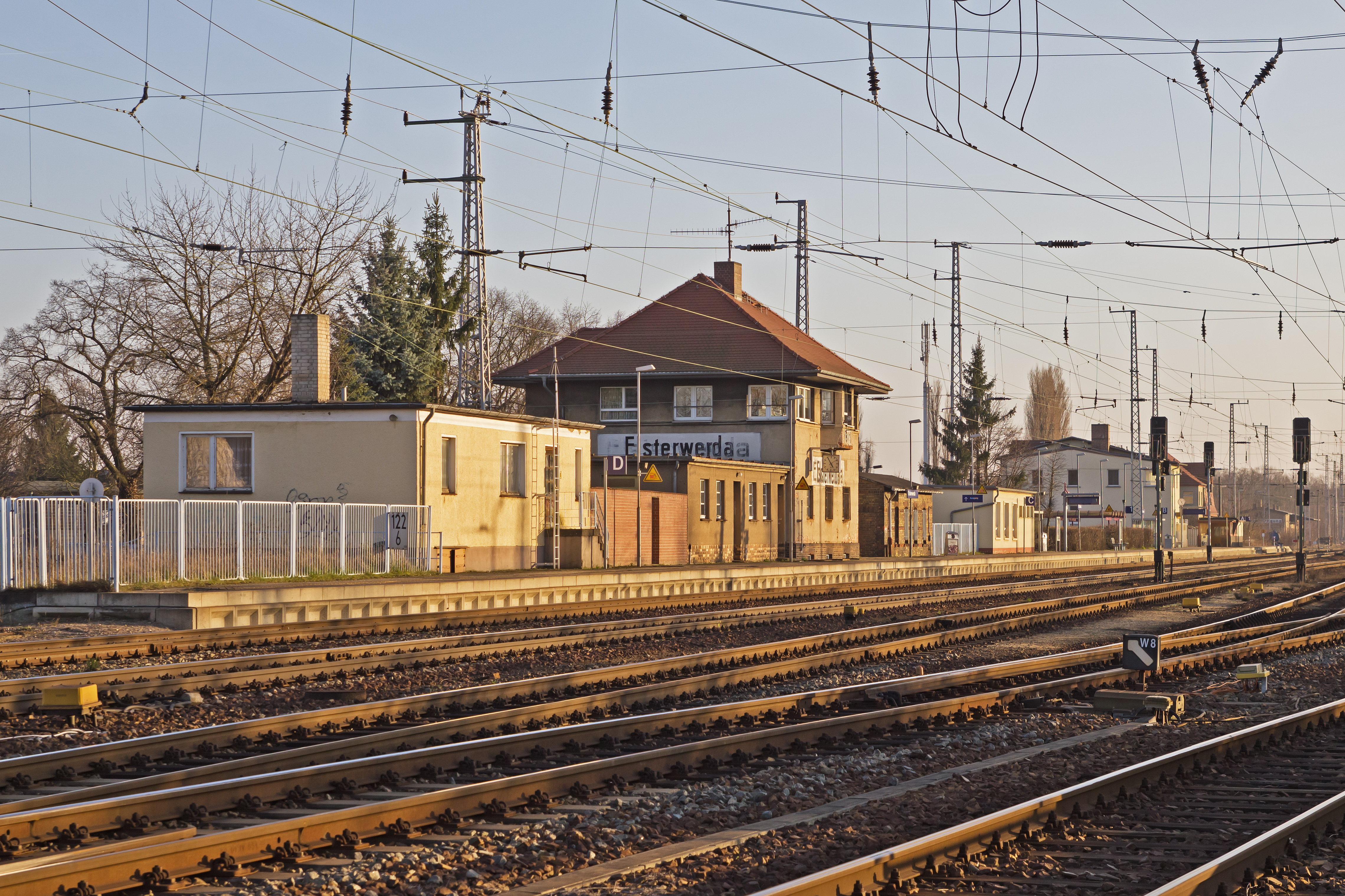 Platform and tracks of the train station in Elsterwerda, Brandenburg, Germany